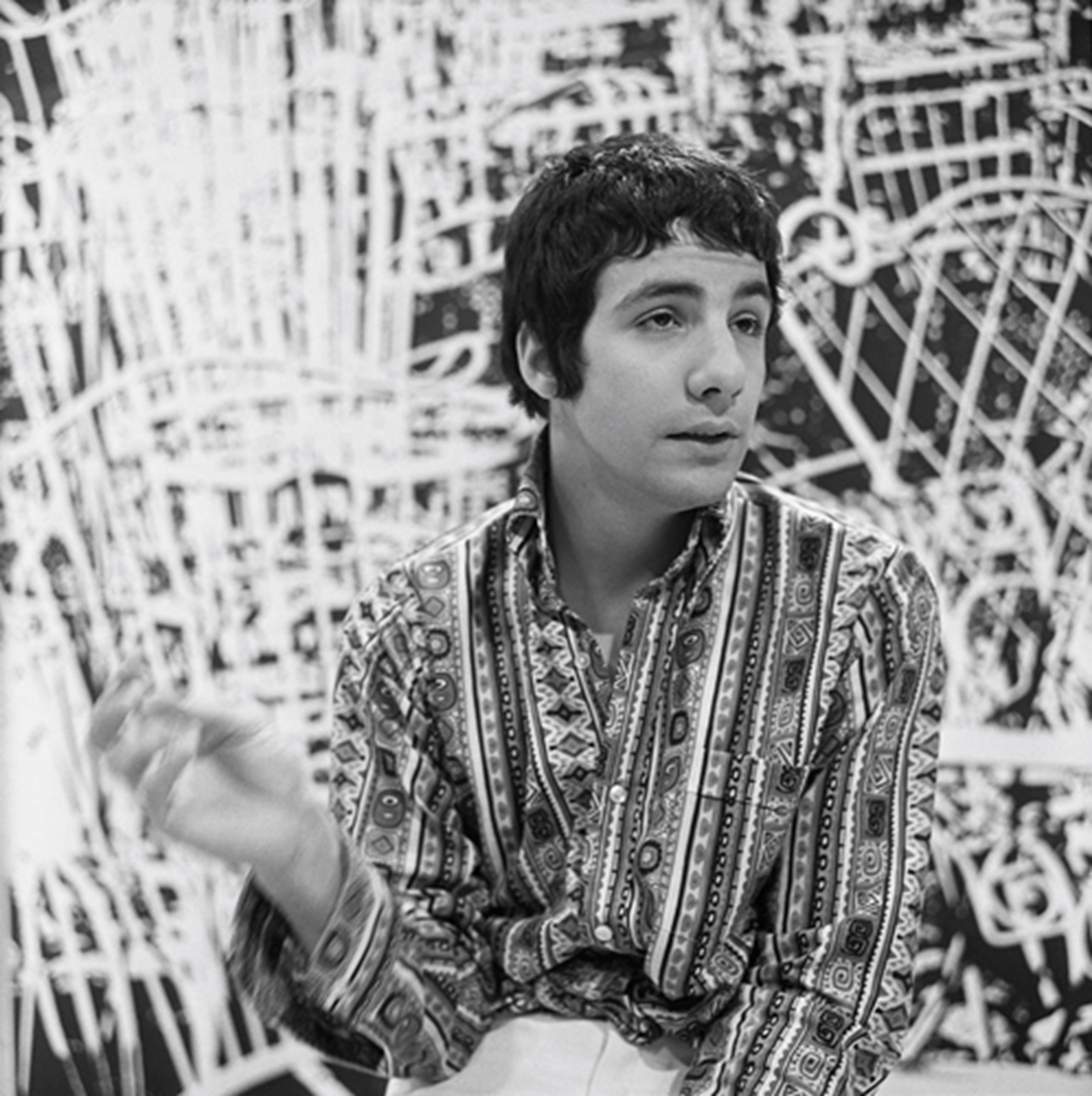 Cat Stevens singing "Granny" and "I'm gonna get me a gun". Dutch TV programme "Fanclub". Recording date 27 May 1967, broadcast date2 June 1967.